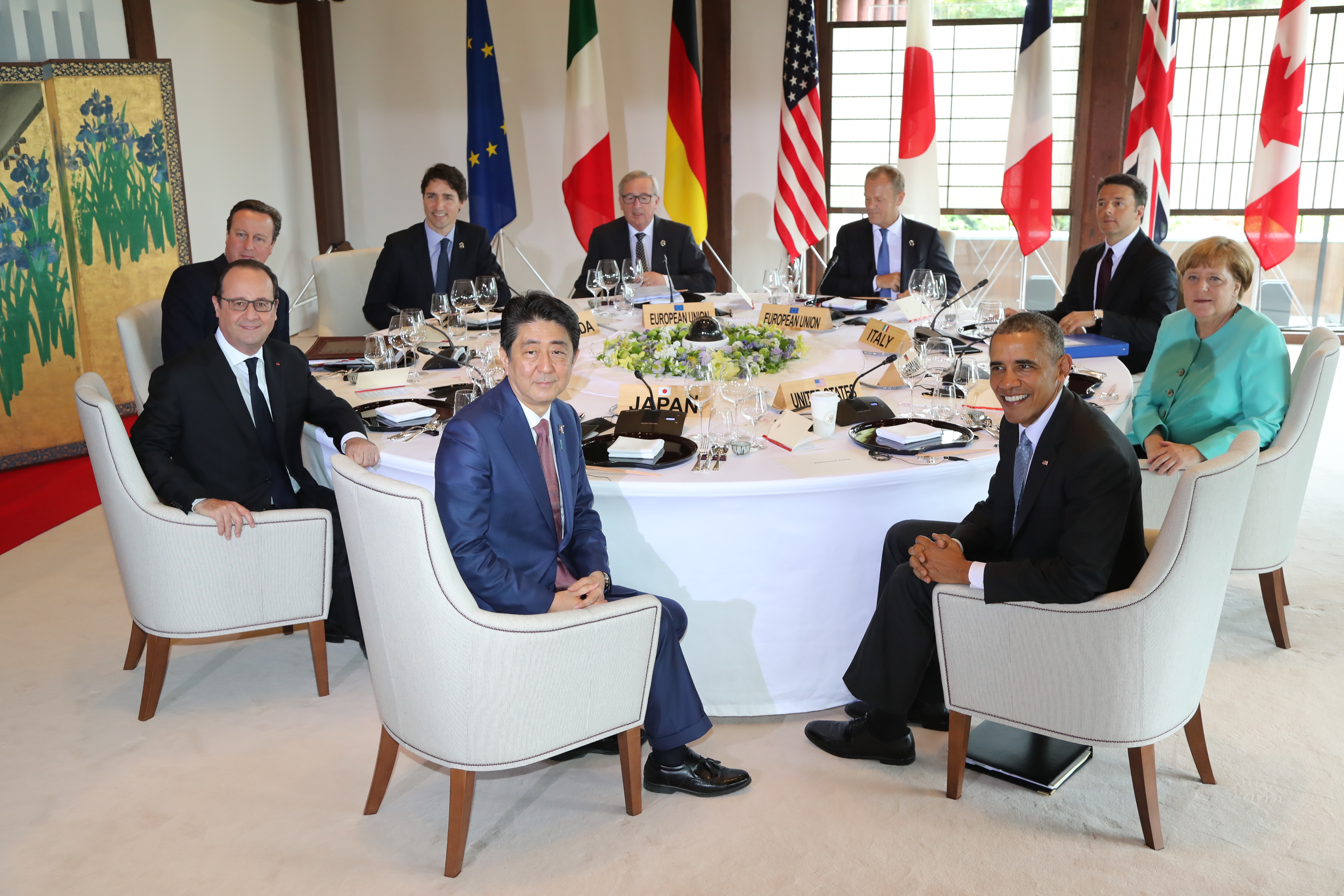 G7 Leaders at 42nd G7 summit in Shima Kanko Hotel.